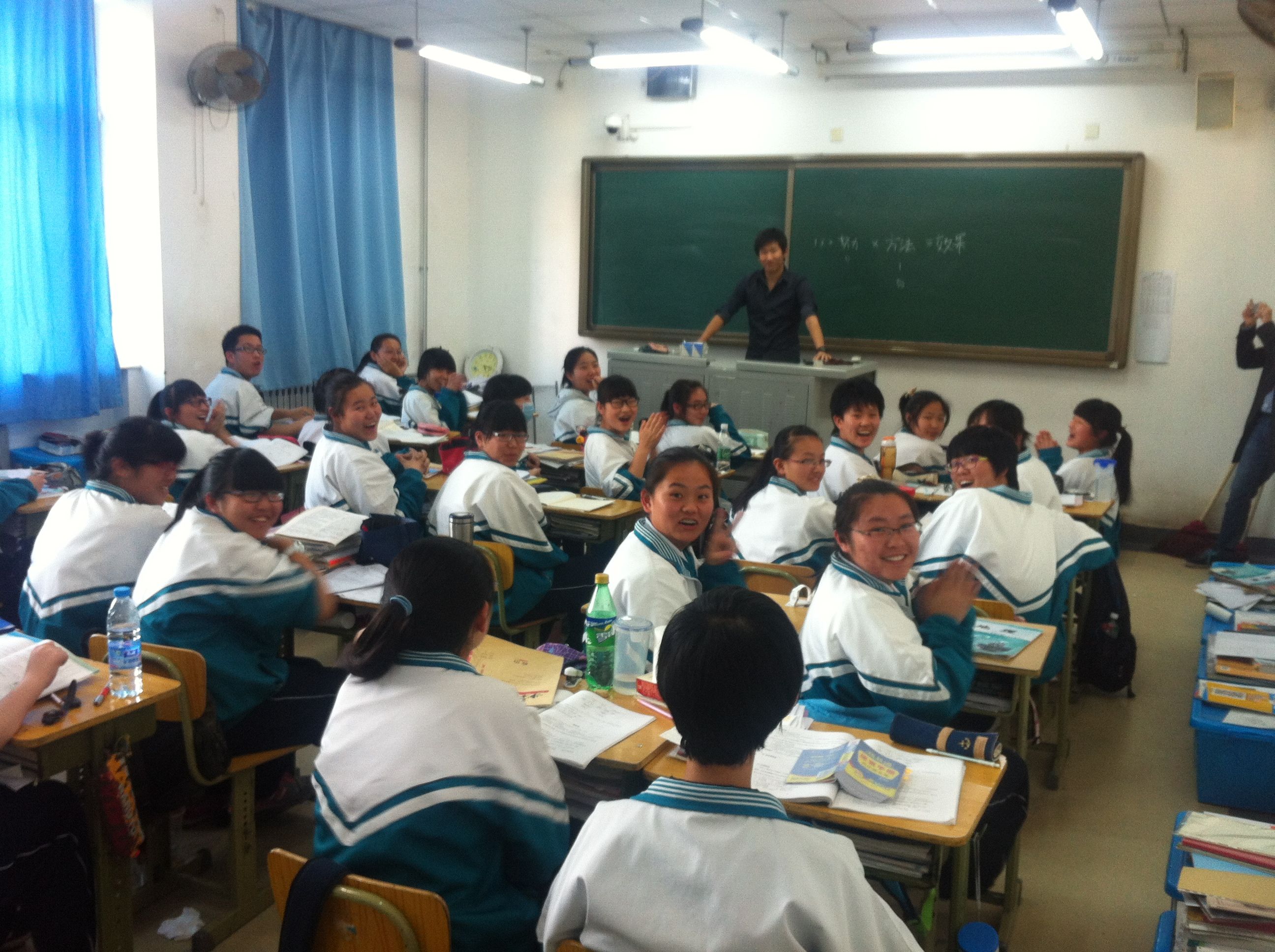 changpingyizhong